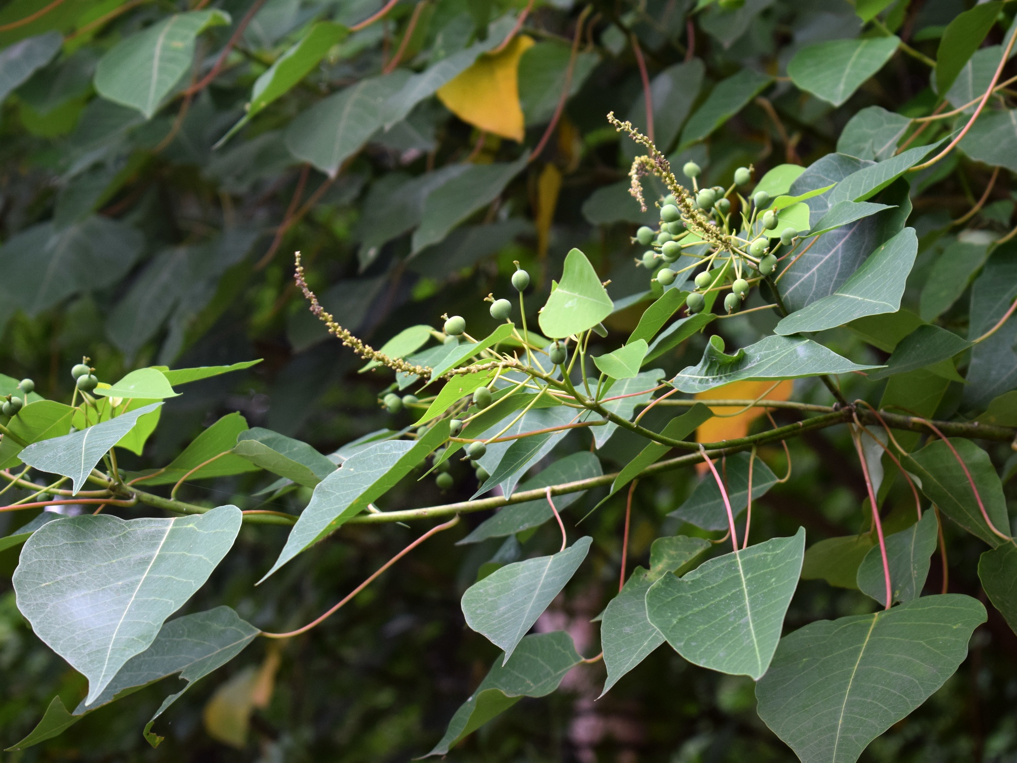 Homalanthus populneus, twigs with inflorescences. Bungkirit urban forest, Kuningan, West Java, Indonesia.